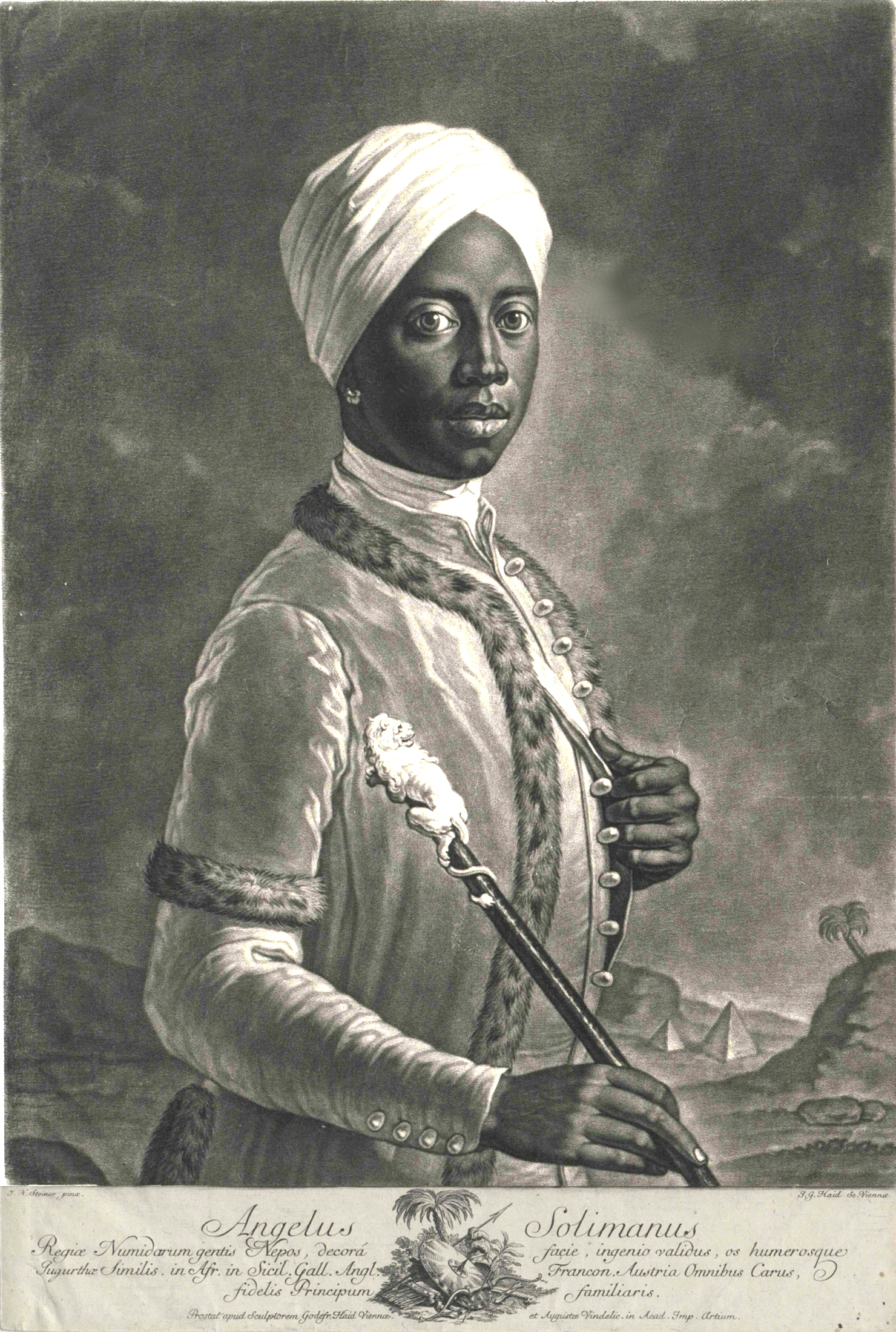 Angelo Soliman around 1750; engraving from the 18th century by Gottfried Haid based on an artwork by Johann Nepomuk Steiner